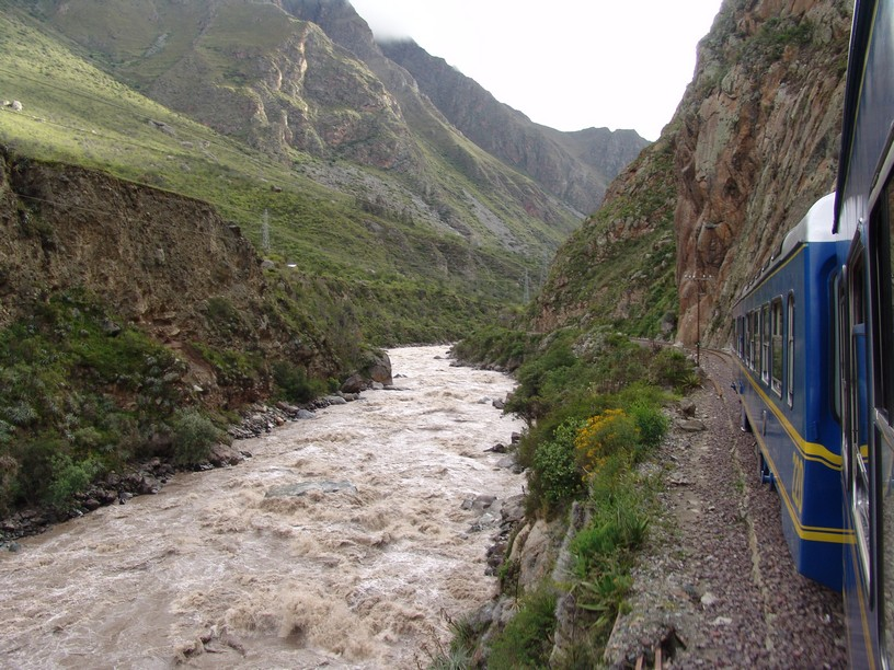 Urubamba river (view from the train to Machu-Picchu)